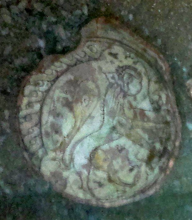 Plate from Bandovan with lion image. 11th-13th cc.